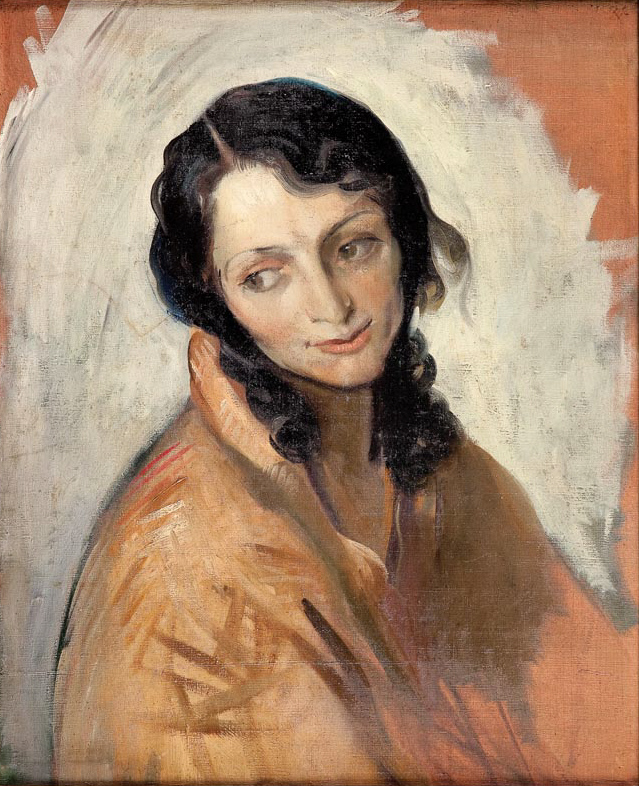 Portrait of a girl